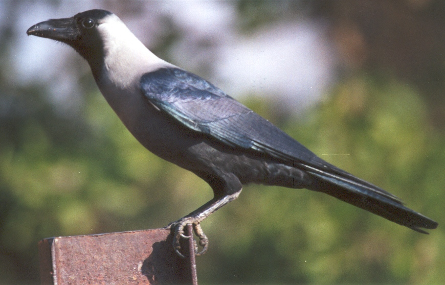 House Crow Taken by Duncan Wright in Sariska National Park